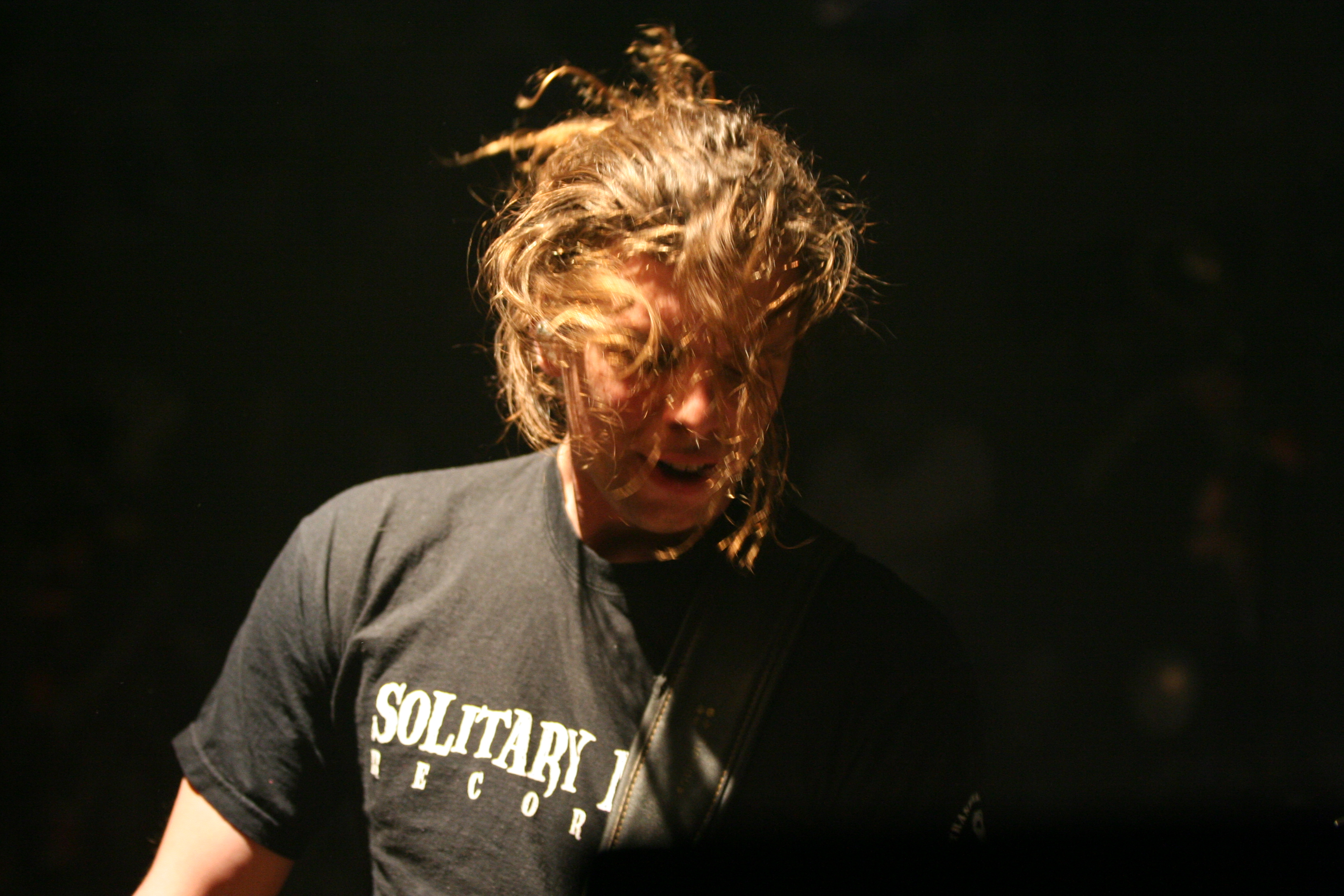 Rüdiger Linhof on a concert in Schrobenhausen